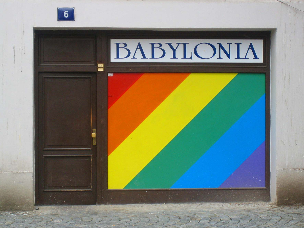 Used on the Gay bathhouse as an example of what the outside of a typical fairly anonymous bathhouse really looks like. Uploaded on July 30, 2006 by O l i v i e r Gay bathhouse Babylonia in Prague, Czech republic. Rationale No rationale is required, see license section.